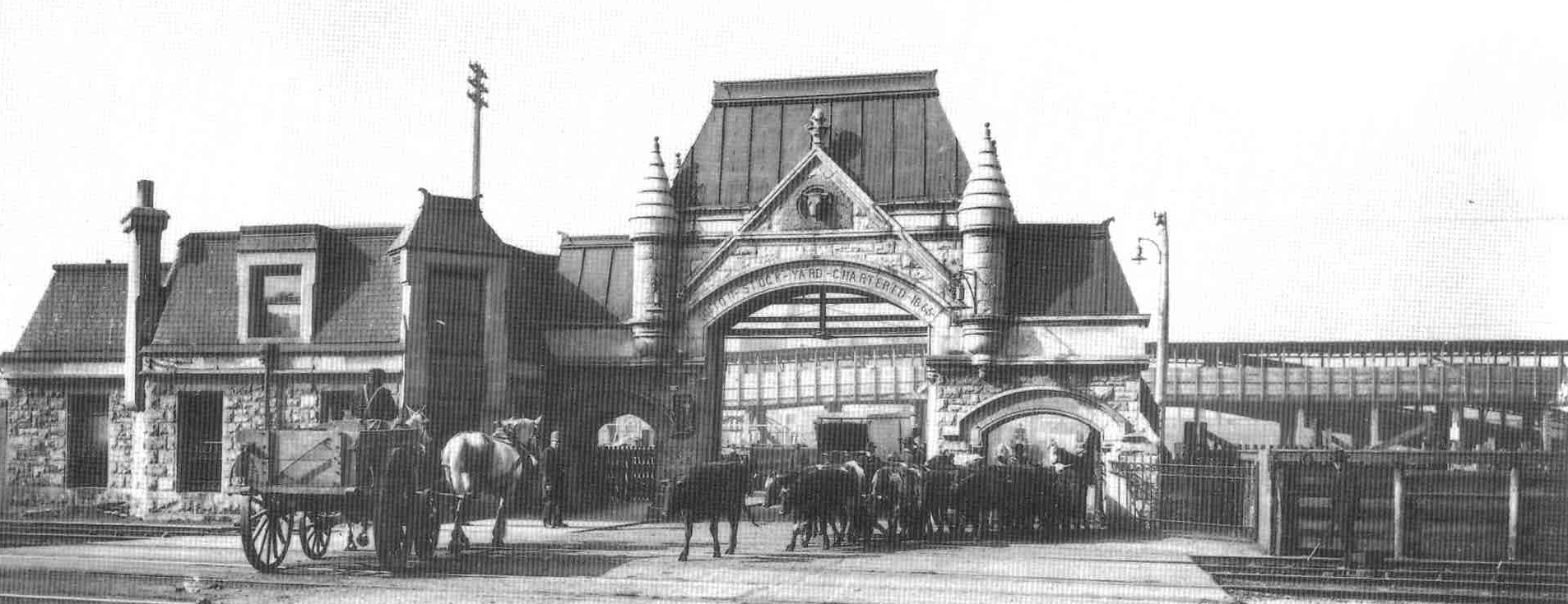 Photo from the 19th century.